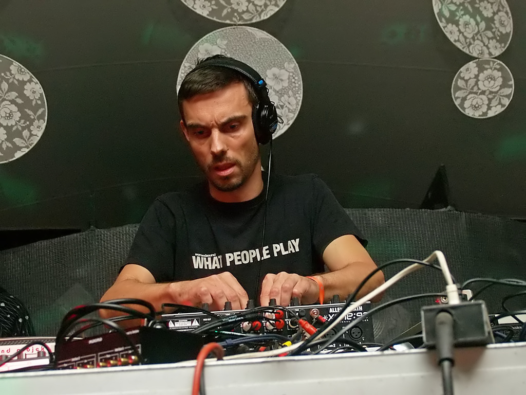 Steve Bug